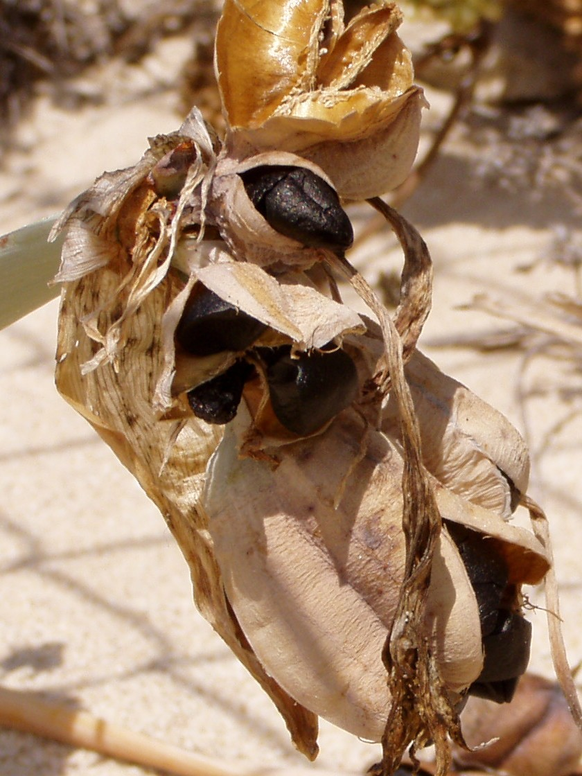 Sea Daffodil